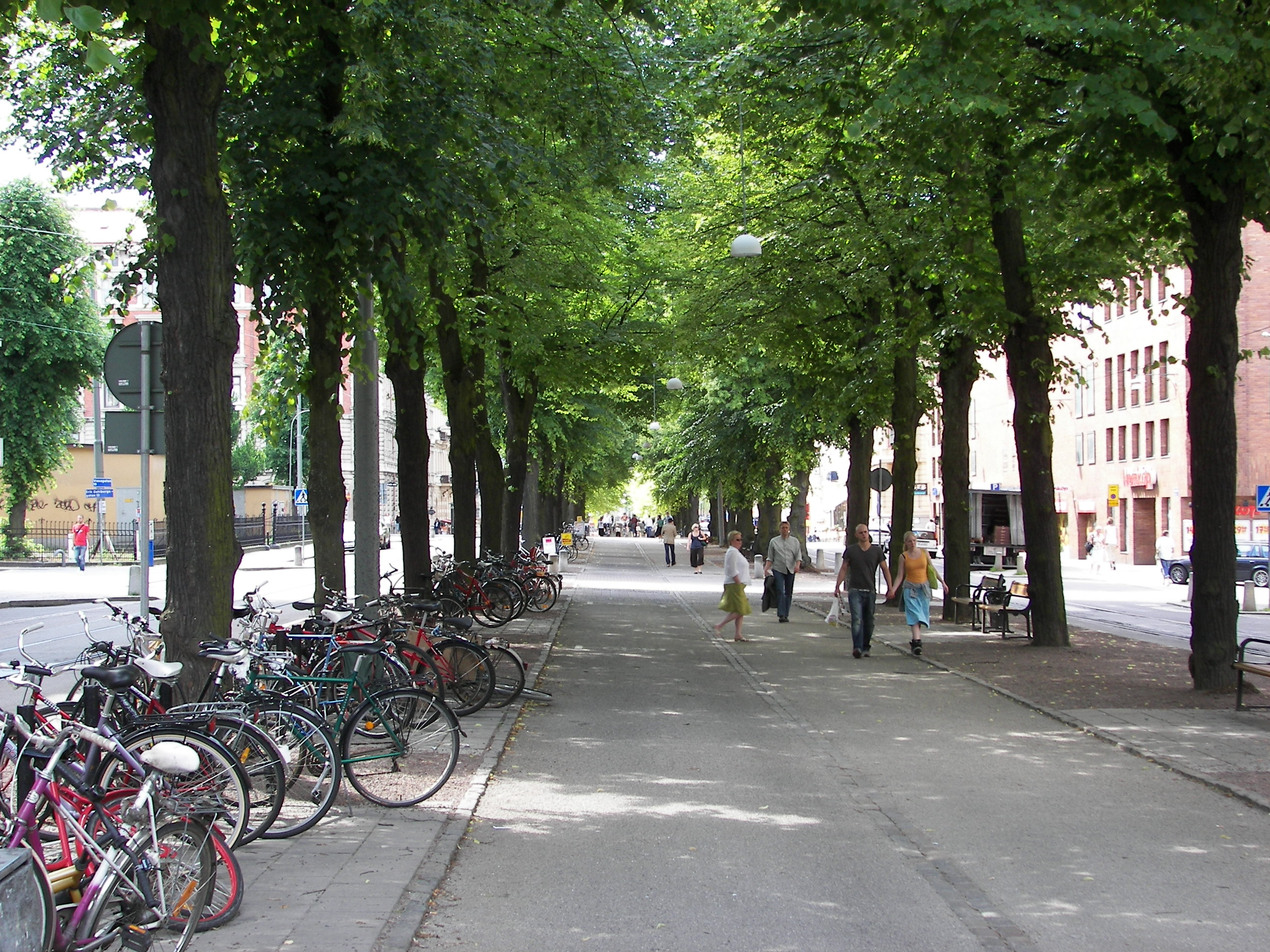 Vasagatan in Göteborg, Sweden.